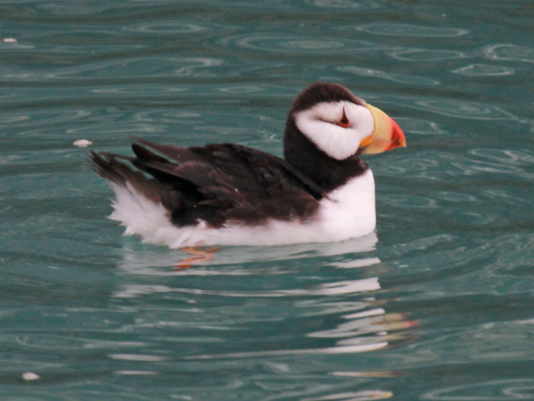 Horned Puffin (Fratercula corniculata) in breeding plumage - near Gull Island, Kachemak Bay, Alaska